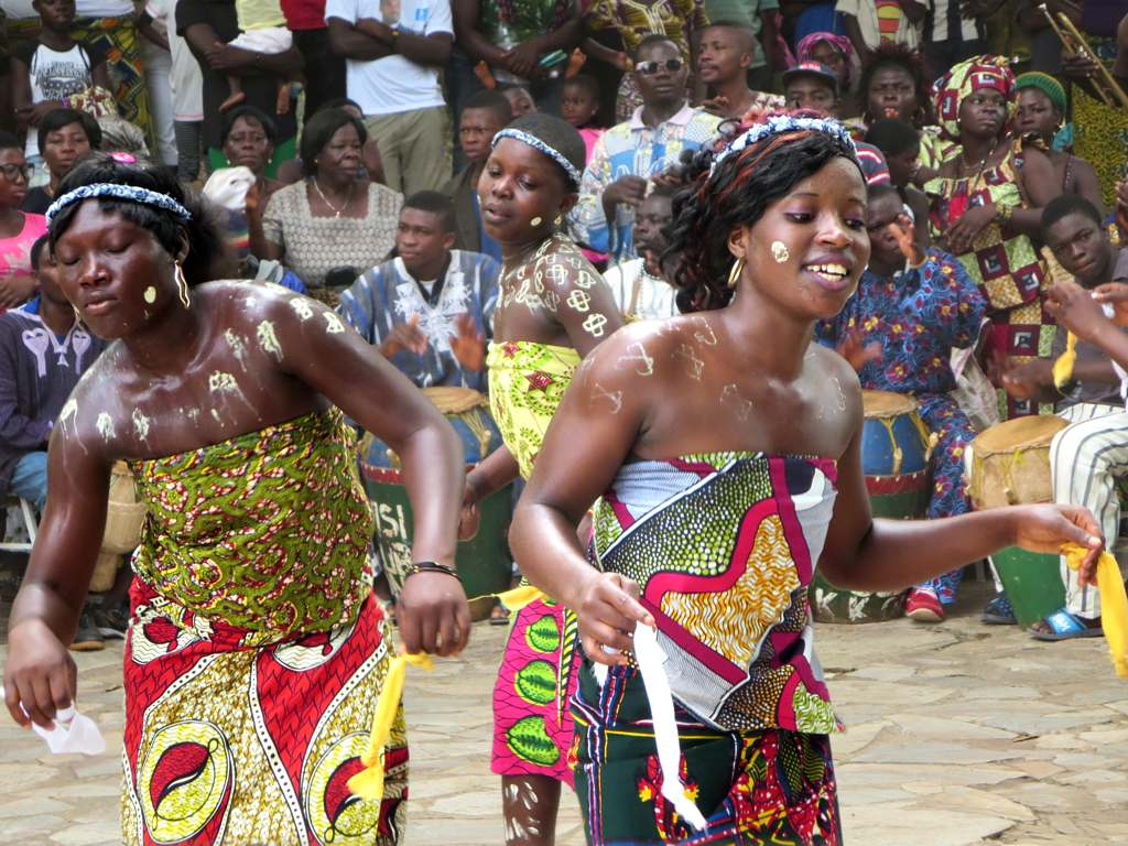 Girls perform the traditional Ewa bobobo dance at the Hotel Campement de Kloto in the Forêt de Missahohe at Kouma-Konda village near Kpalime, Togo.